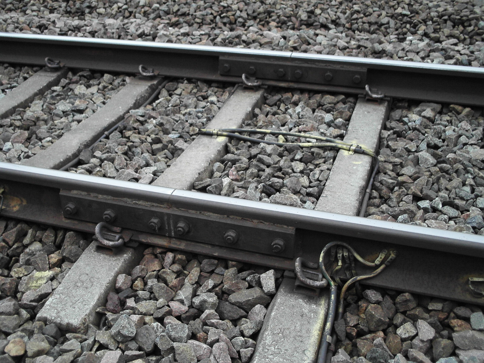 Insulated connector